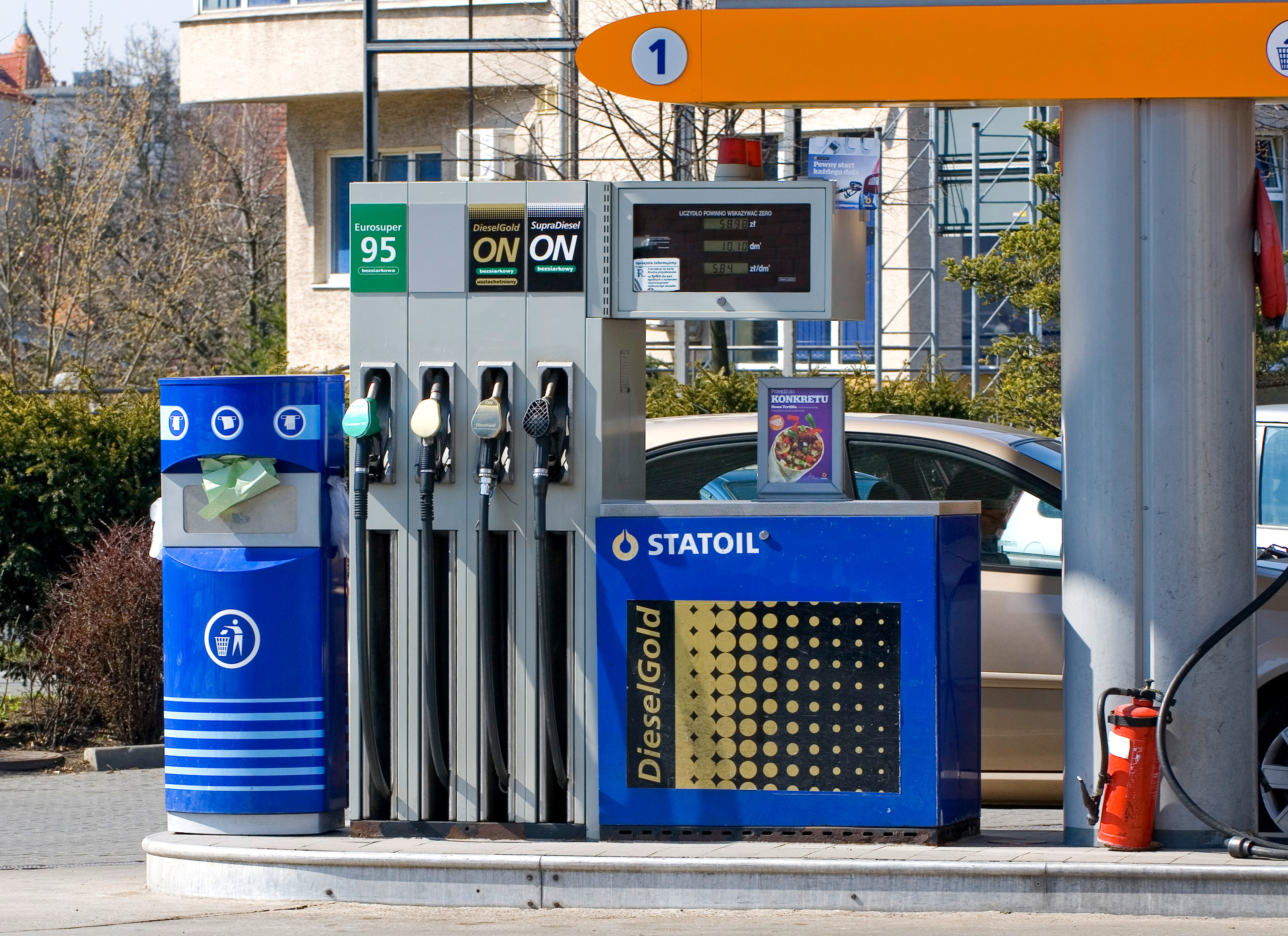 Statoil gas station, Gniezno, Poland